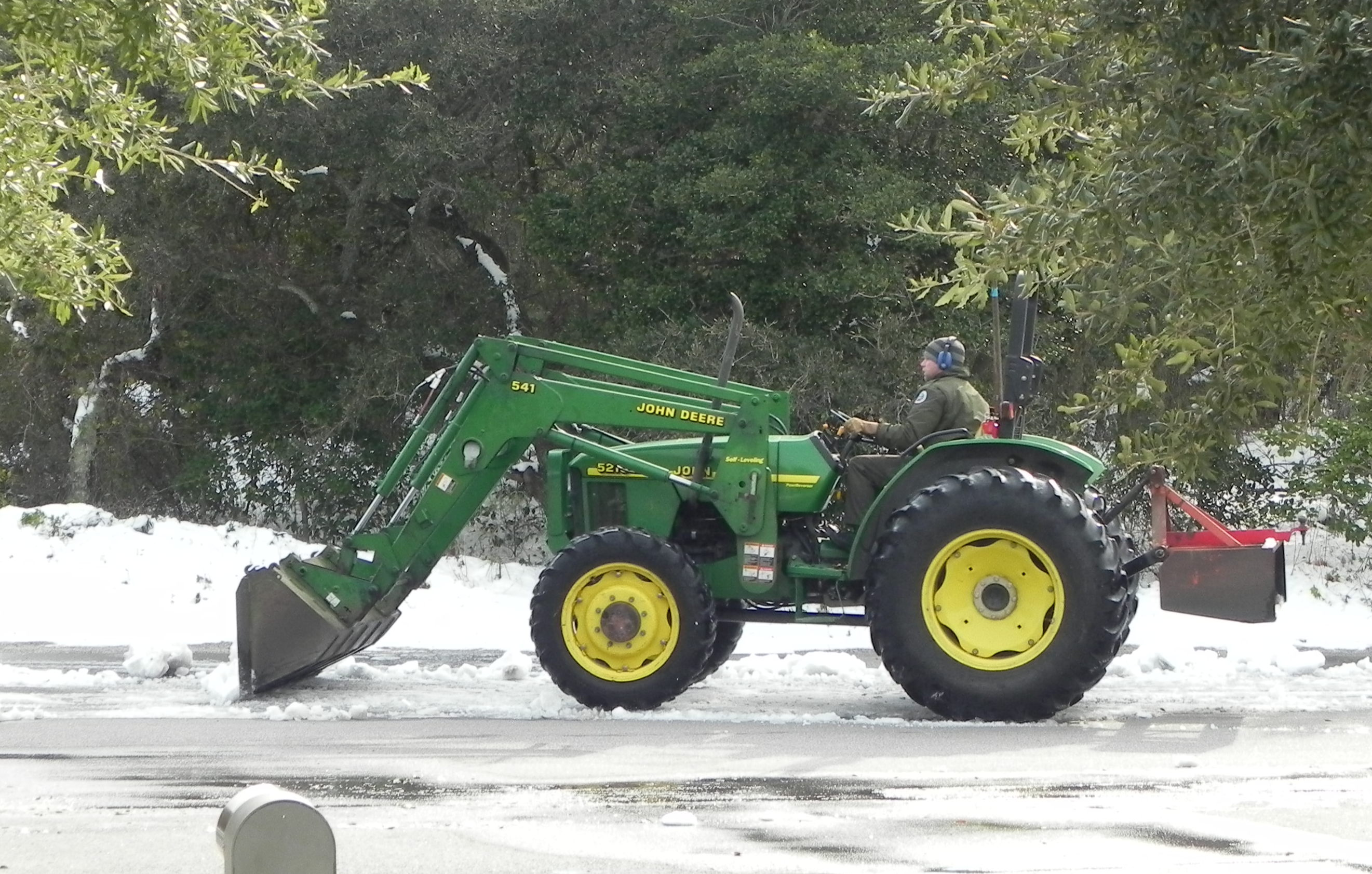 A John Deere 5215 tractor removing snow with its John Deere 541 front end loader; First Landing State Park (formerly Seashore State Park), Virginia Beach, Virginia, USA.